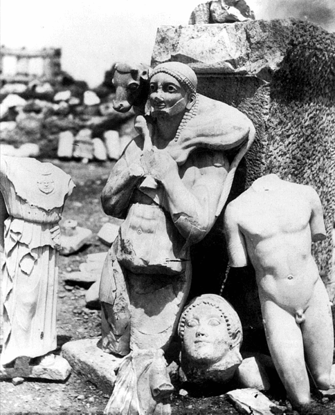 The Moschophoros (c. 560 BC), at the moment of his discovery on the Acropolis, Athens